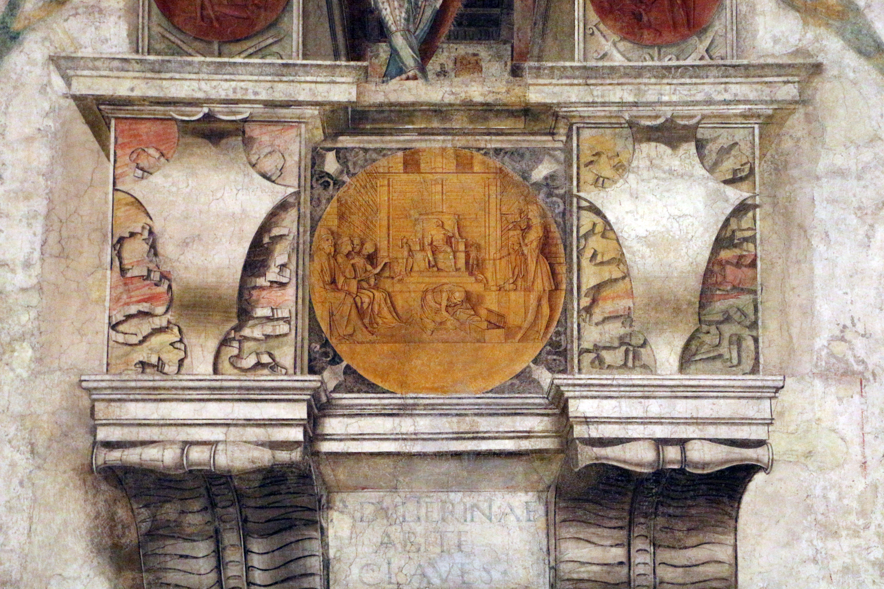 Castello Sforzesco (Milan) - Interior